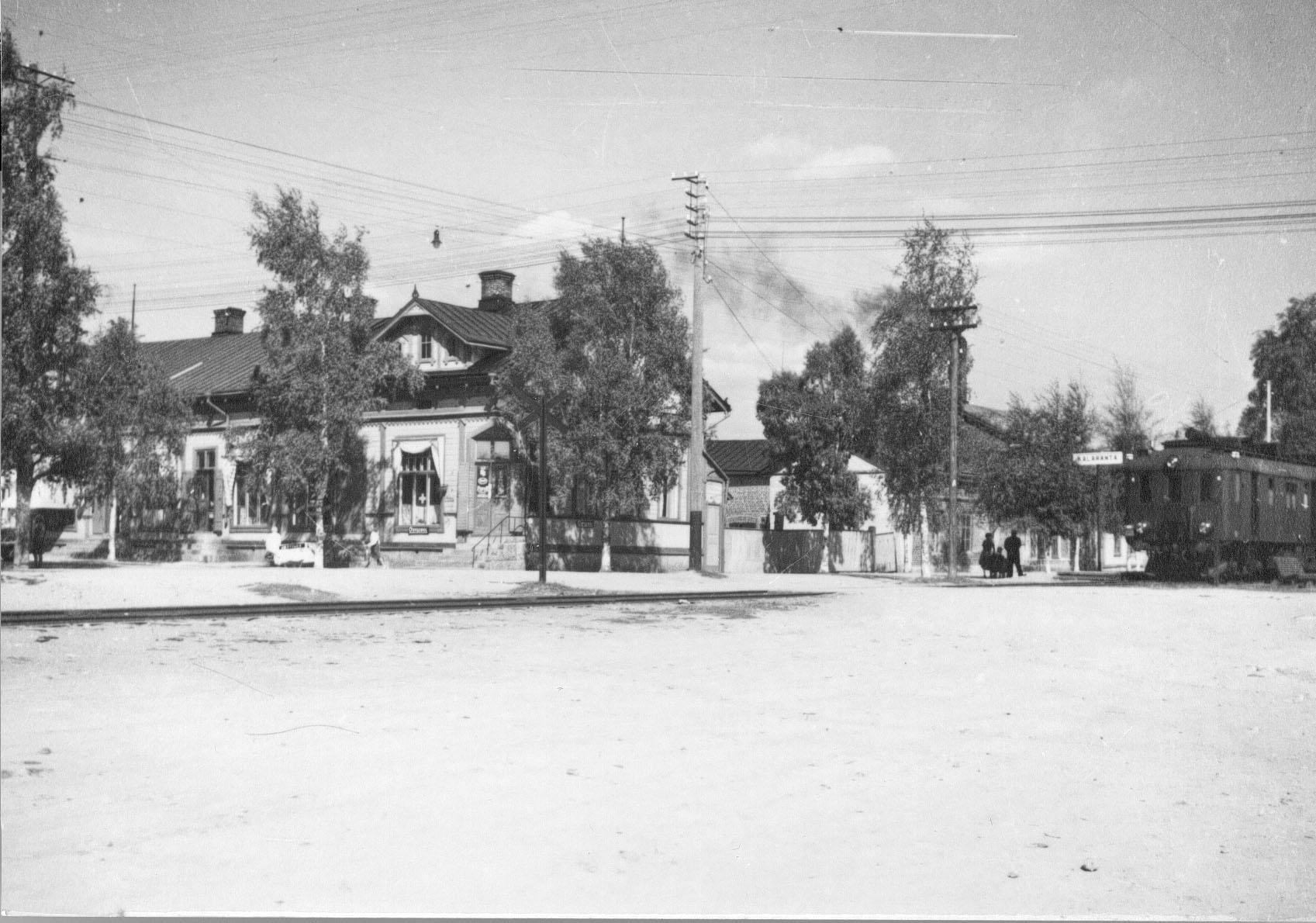 A Ds2 train on the old Kalaranta railway stop in Uusikaupunki, Finland